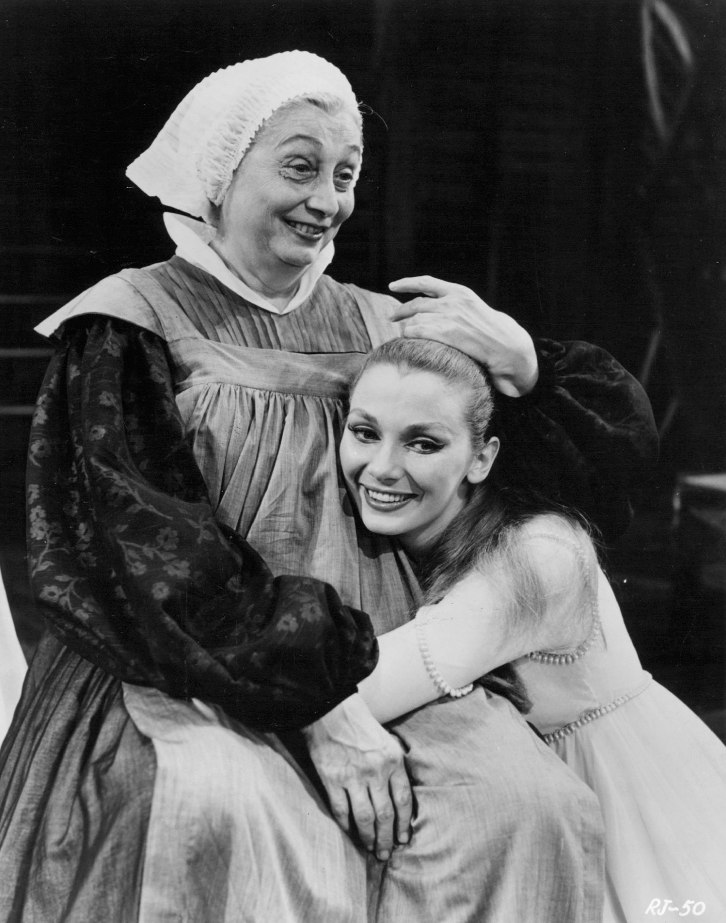 Photo of Aline MacMahon as the nurse and Inga Swenson as Juliet from a 1959 American Shakespeare Festival production of Romeo and Juliet.